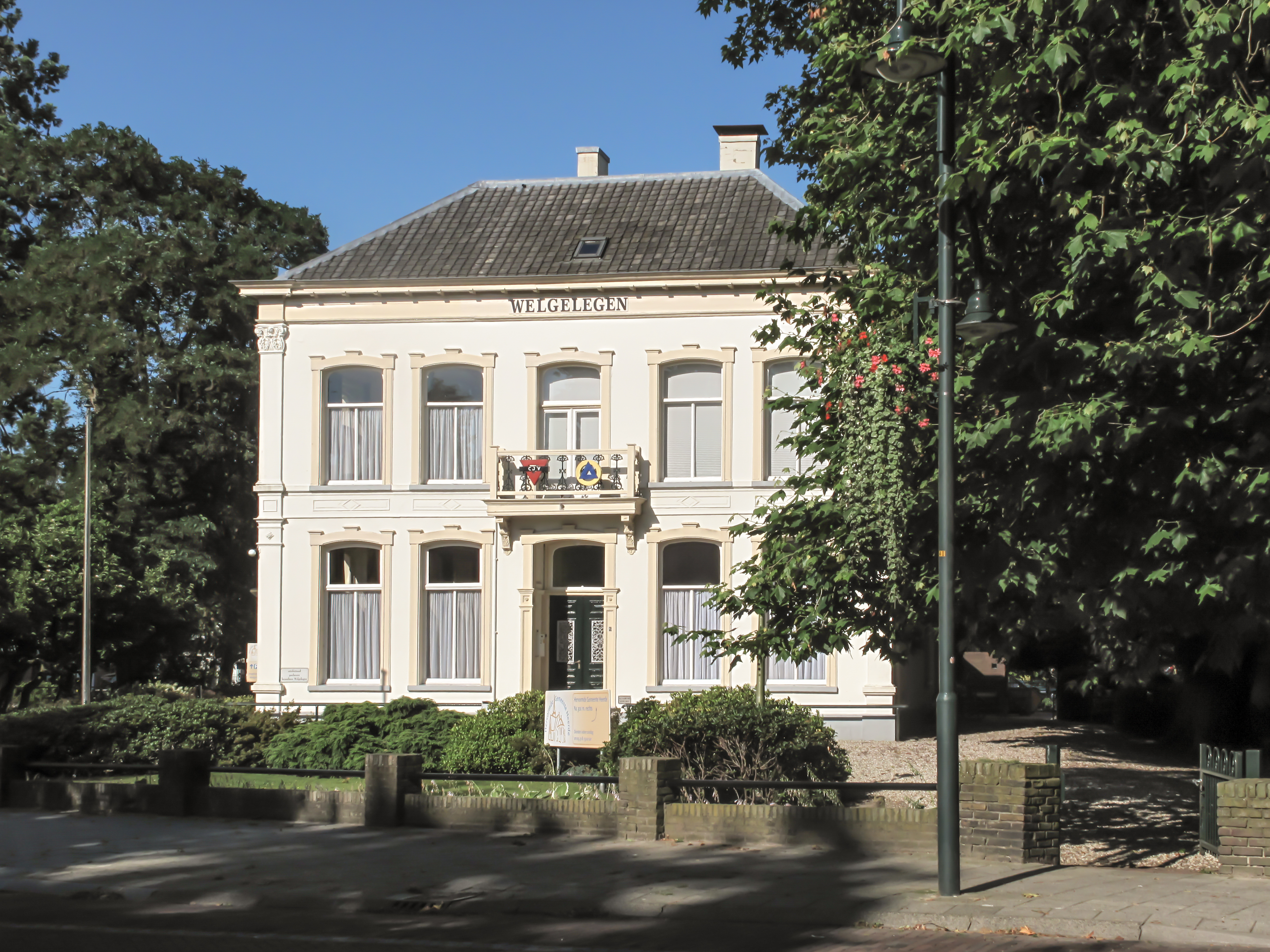 Heerde, country house: villa Welgelegen